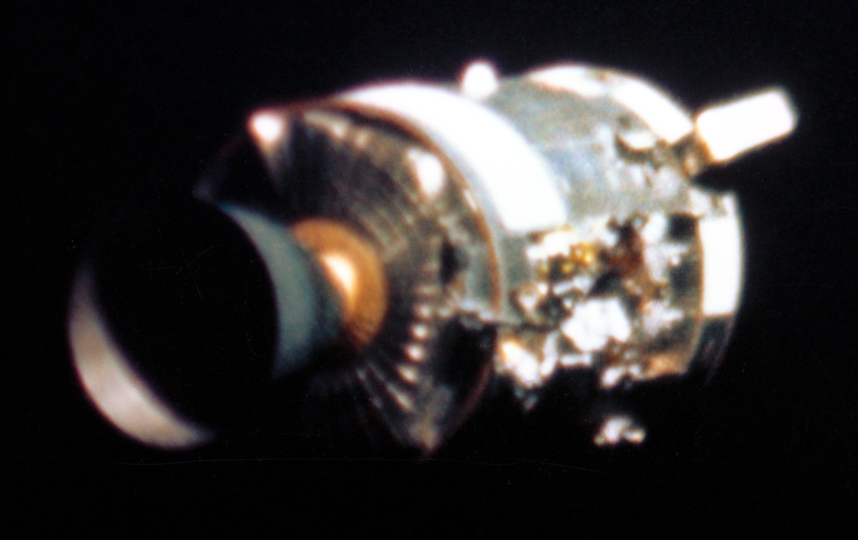 This view of the damaged Apollo 13 Service Module (SM) was photographed from the Lunar Module/Command Module following SM jettisoning. As seen here, an entire SM panel was blown away by the apparent explosion of oxygen tank number two located in Sector 4 of the SM. Two of the three fuel cells are visible just forward (above) the heavily damaged area. Three fuel cells, two oxygen tanks, and two hydrogen tanks are located in Sector 4. The damaged area is located above the S-Band high gain antenna. Nearest the camera is the Service Propulsion System (SPS) engine and nozzle. The damage to the SM caused the Apollo 13 crewmen to use the Lunar Excursion Module (LEM) as a "lifeboat." The Lunar Module "Aquarius" was jettisoned just prior to Earth reentry by the Command Module "Odyssey".